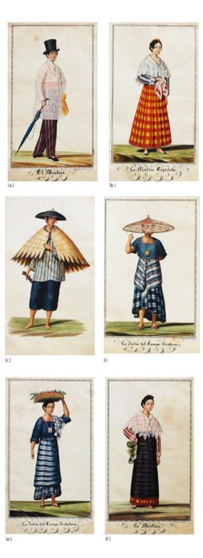 Tipos del País Illustrations (19th Century Watercolor) by Justiniano Asuncion